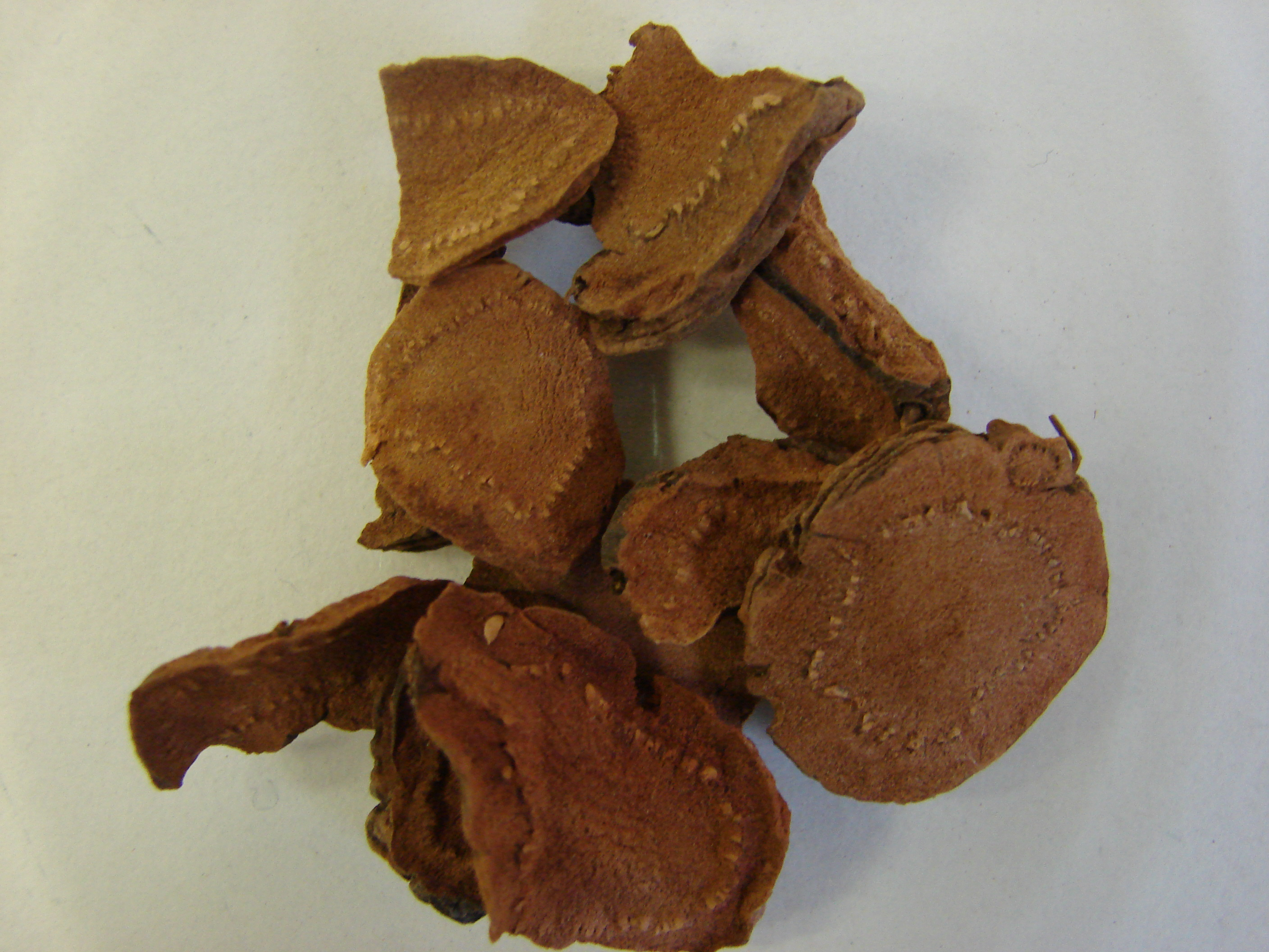 Polygoni bistortae rhizoma, Polygonum bistorta